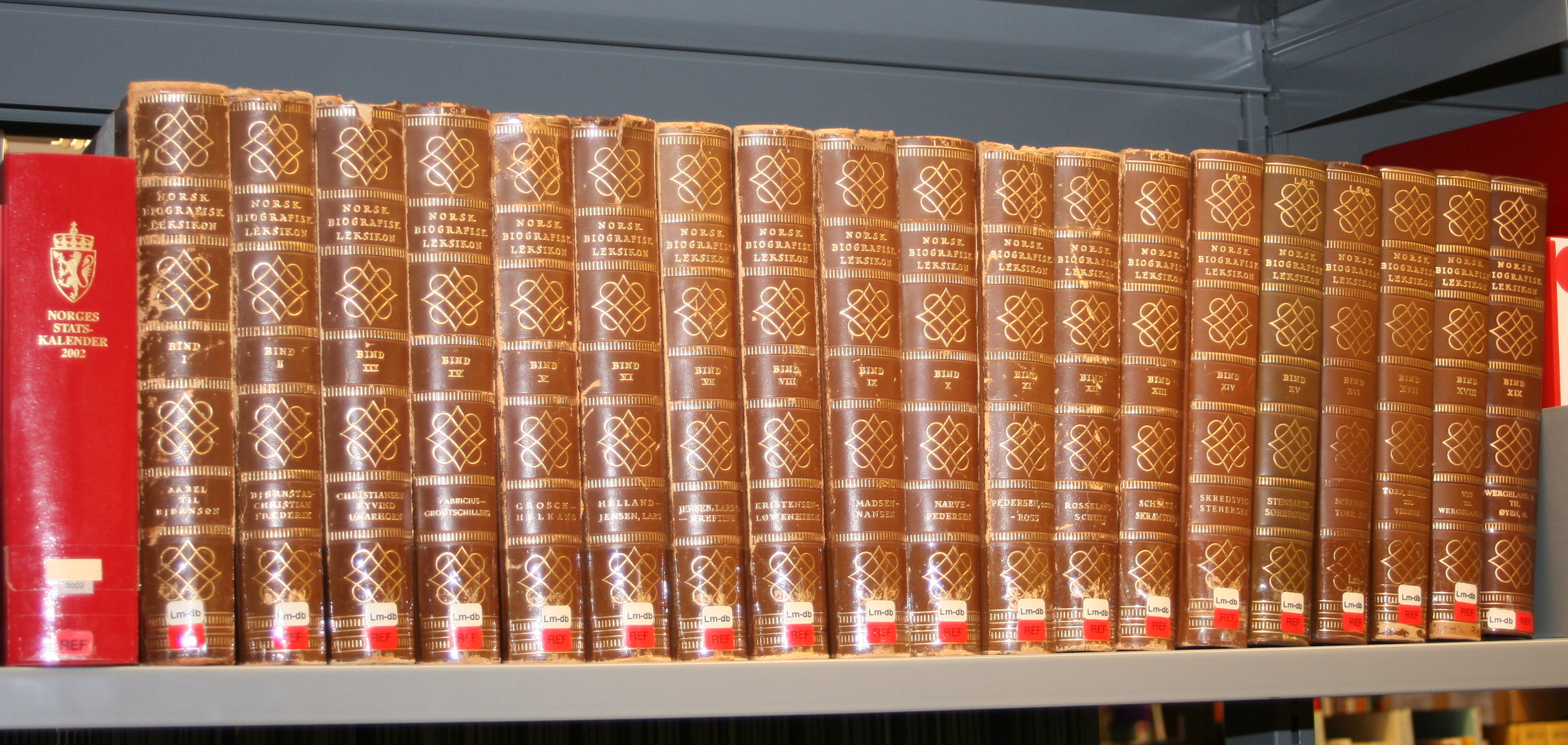 Norsk biografisk leksikon, 19 volumes, from the bookshelf at Lund city public library.